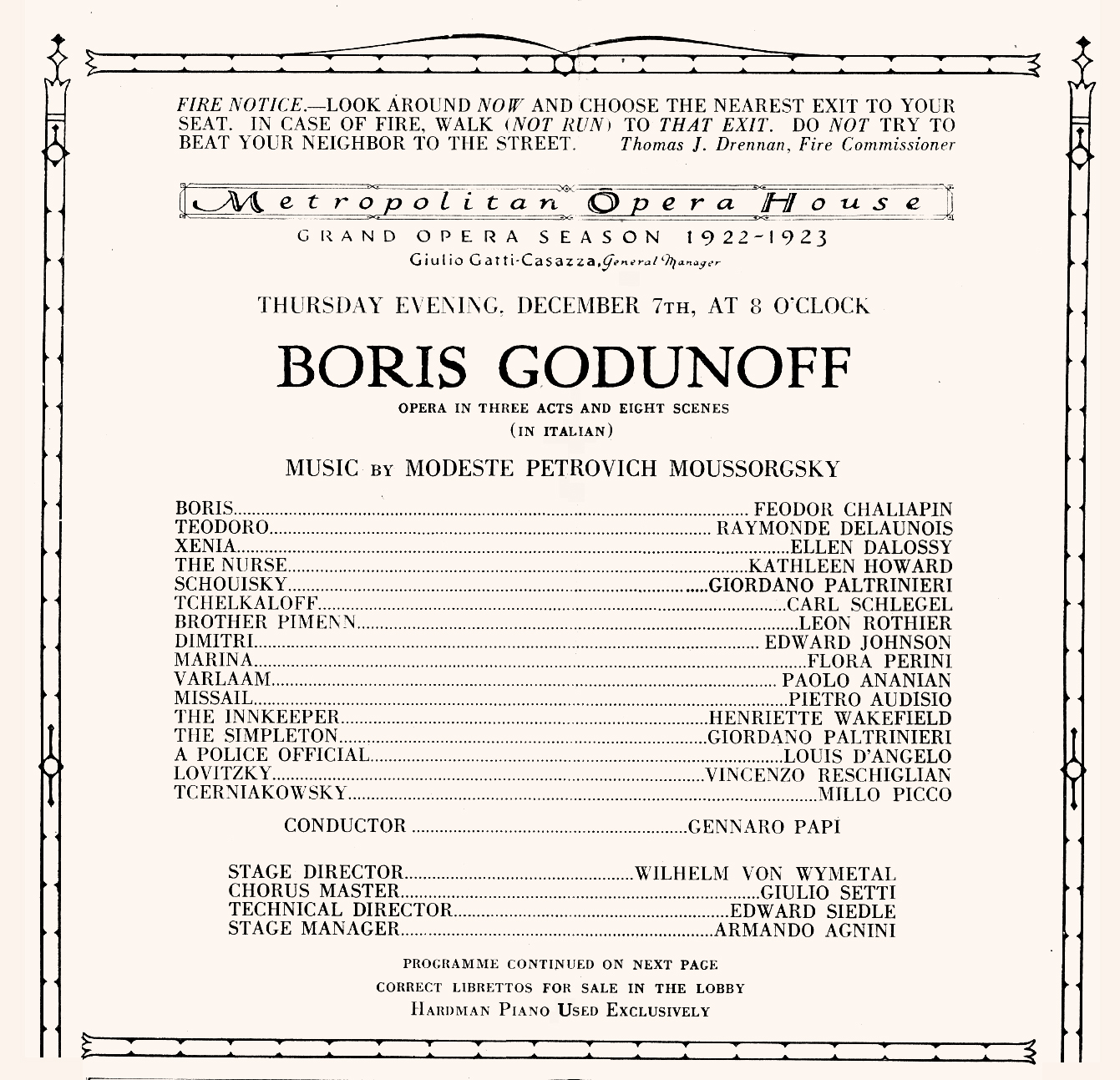 Cast of a performance of Boris Godunoff by Modest Moussorgsky (sung in Italian) presented by the Metropolitan Opera Co., at the Metropolitan Opera House, New York, NY, on December 7, 1922.